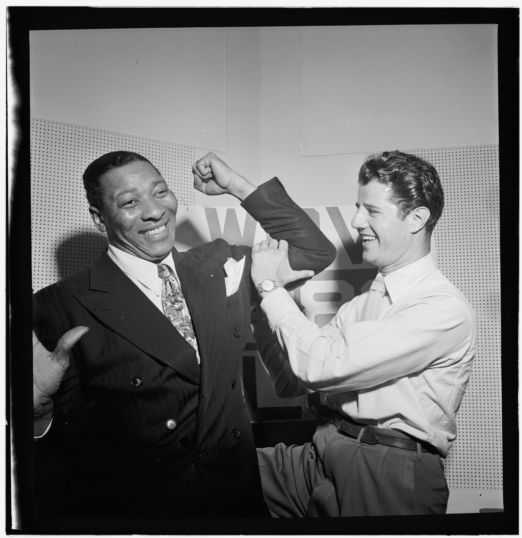 Gottlieb, William P., 1917-, photographer. [Portrait of Sid Catlett and Freddie Robbins, WOV office, New York, N.Y., ca. June 1947] 1 negative : b&w ; 2 1/4 x 2 1/4 in. Caption from Down Beat: Big Sid Catlett and Freddie Robbins Notes: Gottlieb Collection Assignment No. 058 Reference print available in Music Division, Library of Congress. Purchase William P. Gottlieb Forms part of: William P. Gottlieb Collection (Library of Congress). In: "Robbins flays disc firms for bad wax," Down Beat, v. 14, no. 13 (June 18, 1947), p. 6. Subjects: Catlett, Sid, 1910-1951 Robbins, Freddie Jazz musicians--1940-1950. Drummers (Musicians)--1940-1950. Disc jockeys--1940-1950. Format: Portrait photographs--1940-1950. Group portraits--1940-1950. Film negatives--1940-1950. Rights Info: Mr. Gottlieb has dedicated these works to the public domain, but rights of privacy and publicity may apply. Repository: (negative) Library of Congress, Prints & Photographs Division, Washington D.C. 20540 USA, (reference print) Library of Congress, Music Division, Washington D.C. 20540 USA, Part Of: William P. Gottlieb Collection (DLC) 99-401005 General information about the Gottlieb Collection is available at Persistent URL: Call Number: LC-GLB23- 0119 This work is from the William P. Gottlieb collection at the Library of Congress. Rights and restrictions.In accordance with the wishes of William Gottlieb, the photographs in this collection entered into the public domain on February 16, 2010.